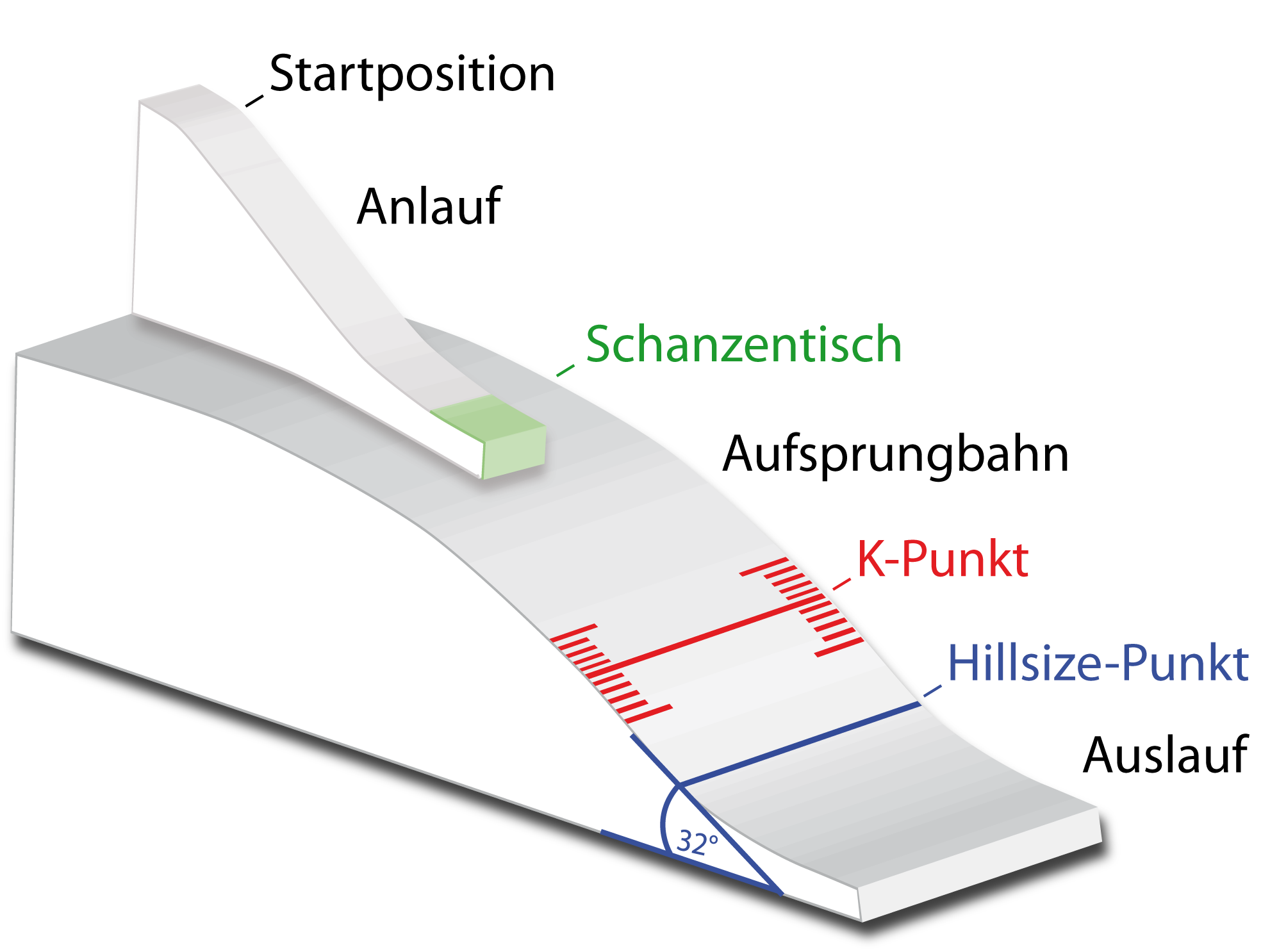 Diagram of a ski jumping hill (with German labels).